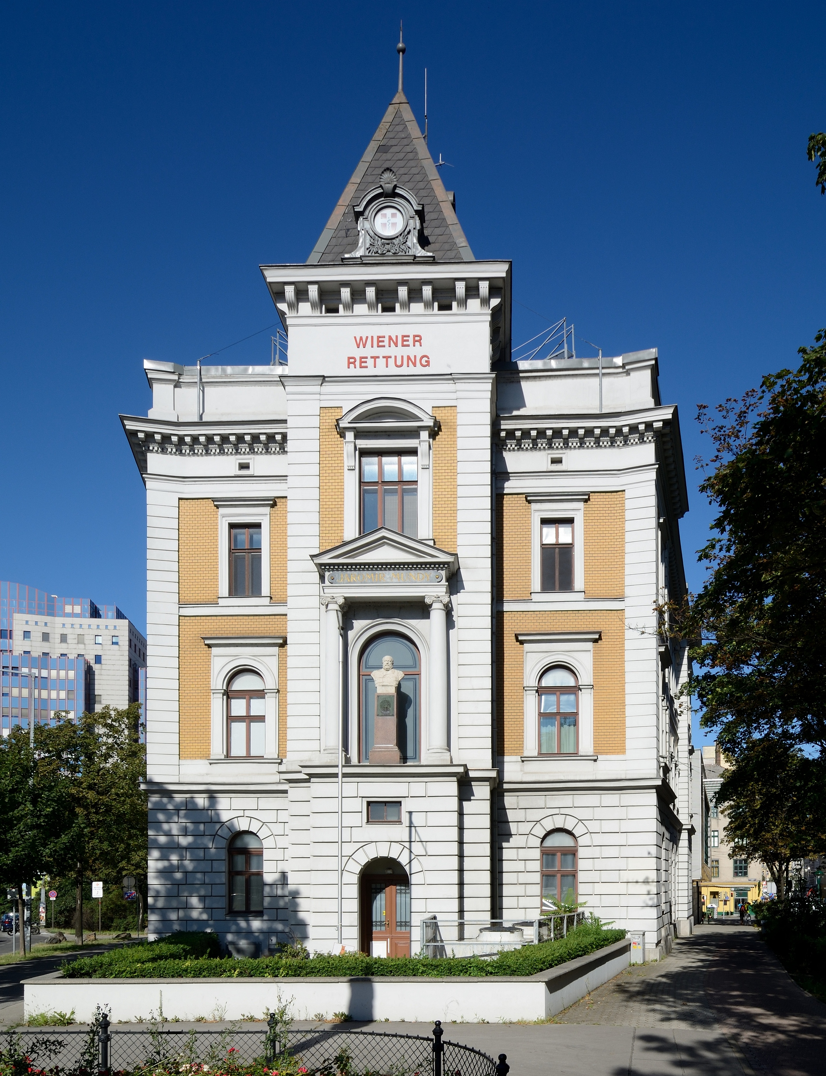 Headquarters of the Viennese Ambulance Service